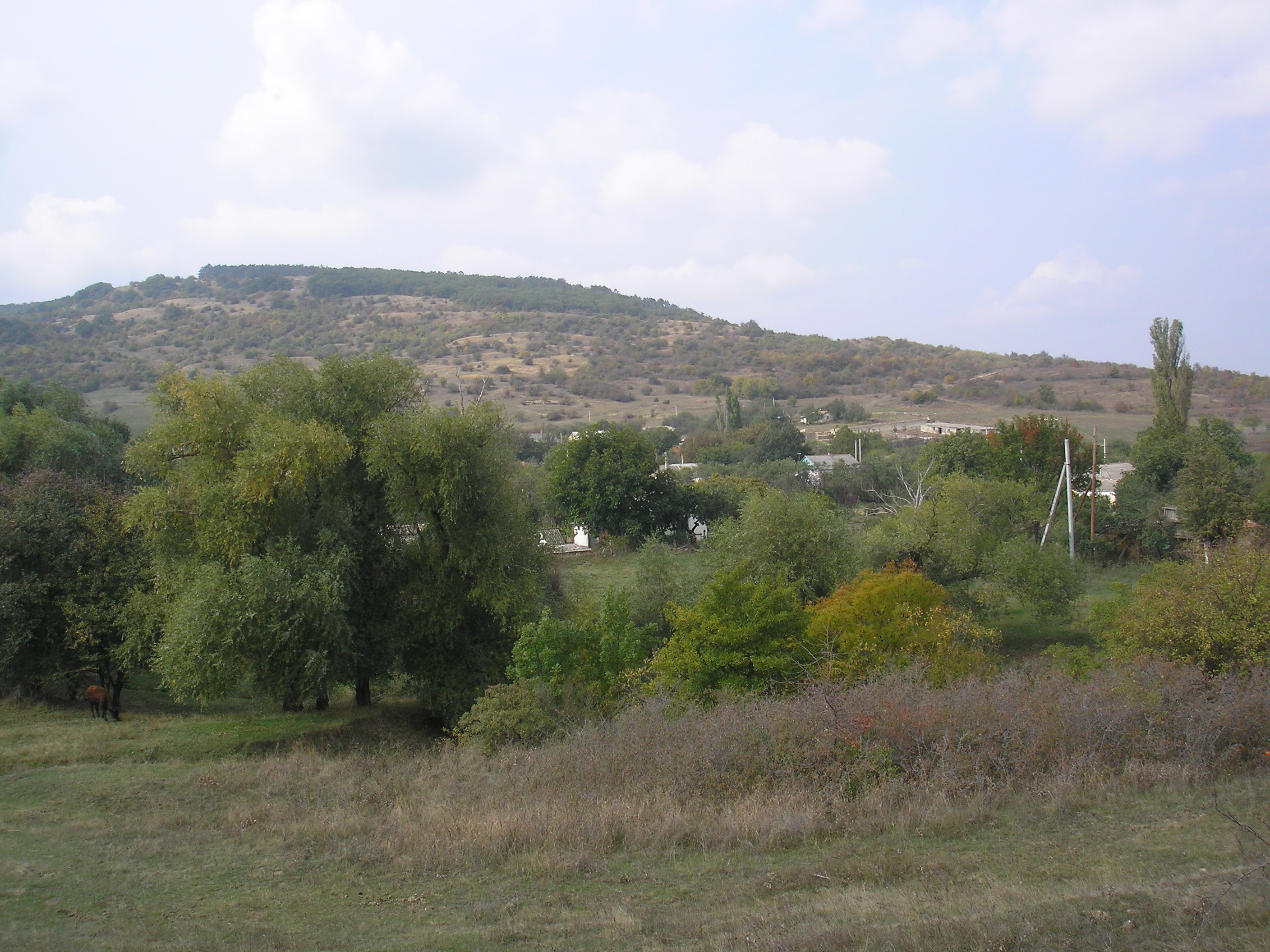 Village Cheremisovka, Belogorsky region, Crimea